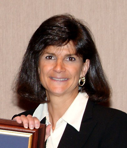 Patricia Russo, former CEO of Alcatel-Lucent and Chairwoman of Hewlett-Packard Enterprise.